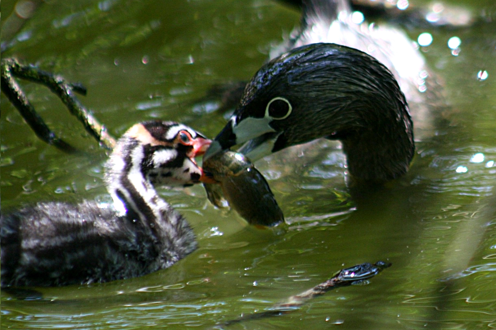 Pied billed Grebe feeding a chick